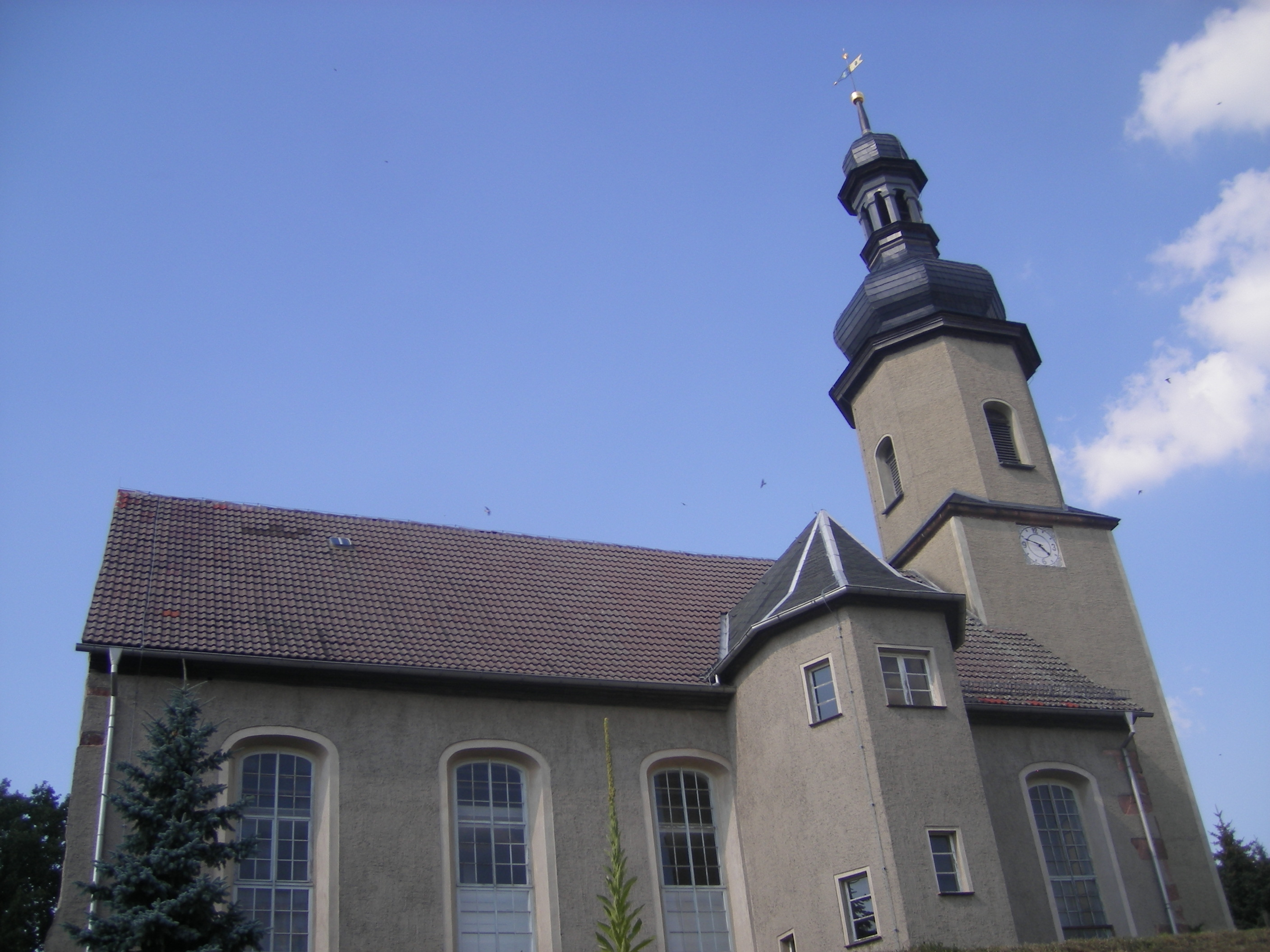 Church in Gieba near Altenburg/Thuringia